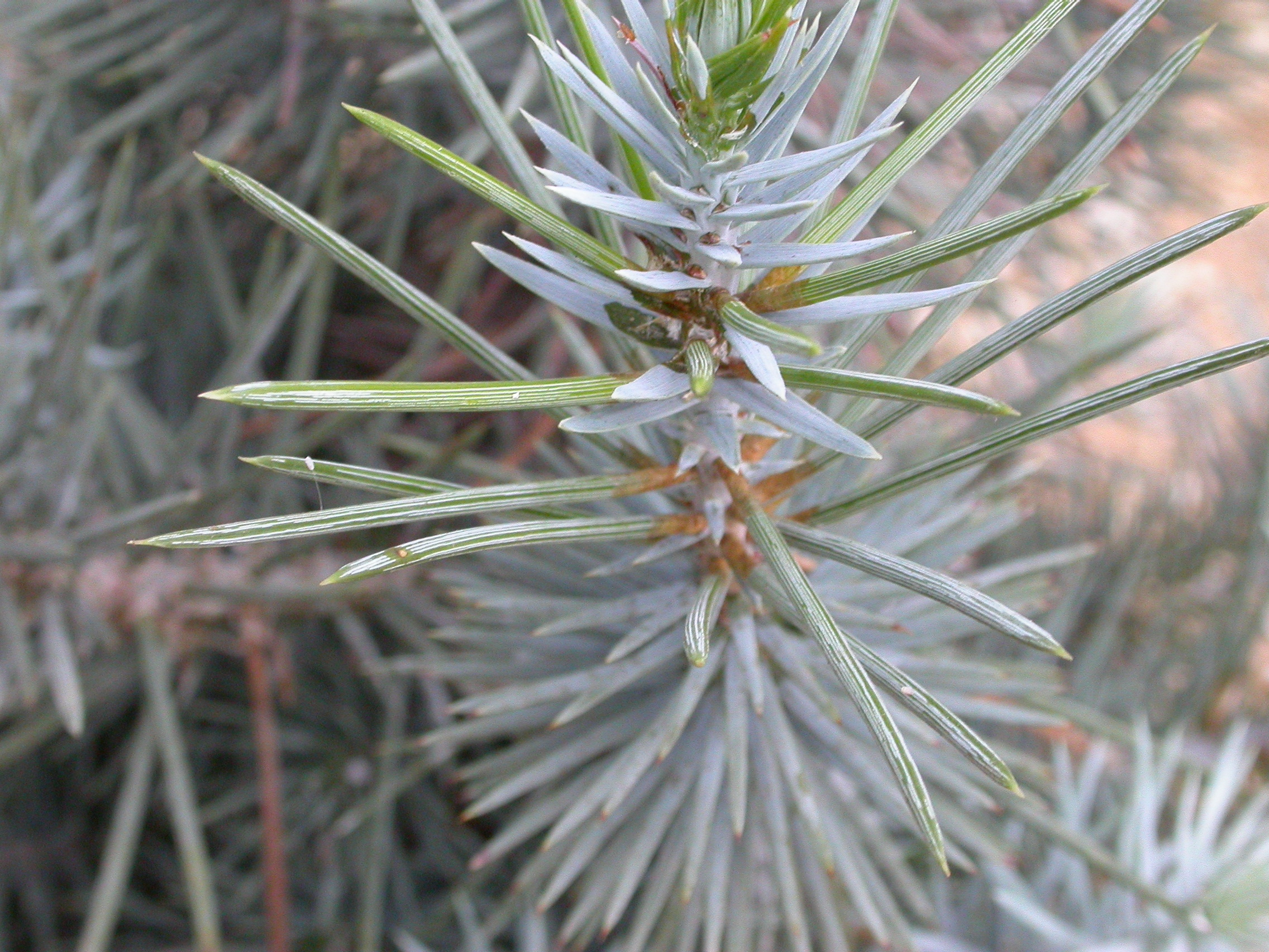 Pinus monophylla (Pinyon pine) — juvenile leaves and fascicles. BioTrek, Cal Poly Pomona. Photographed at BioTrek. Contributed and © by Curtis Clark. Licensed as noted.